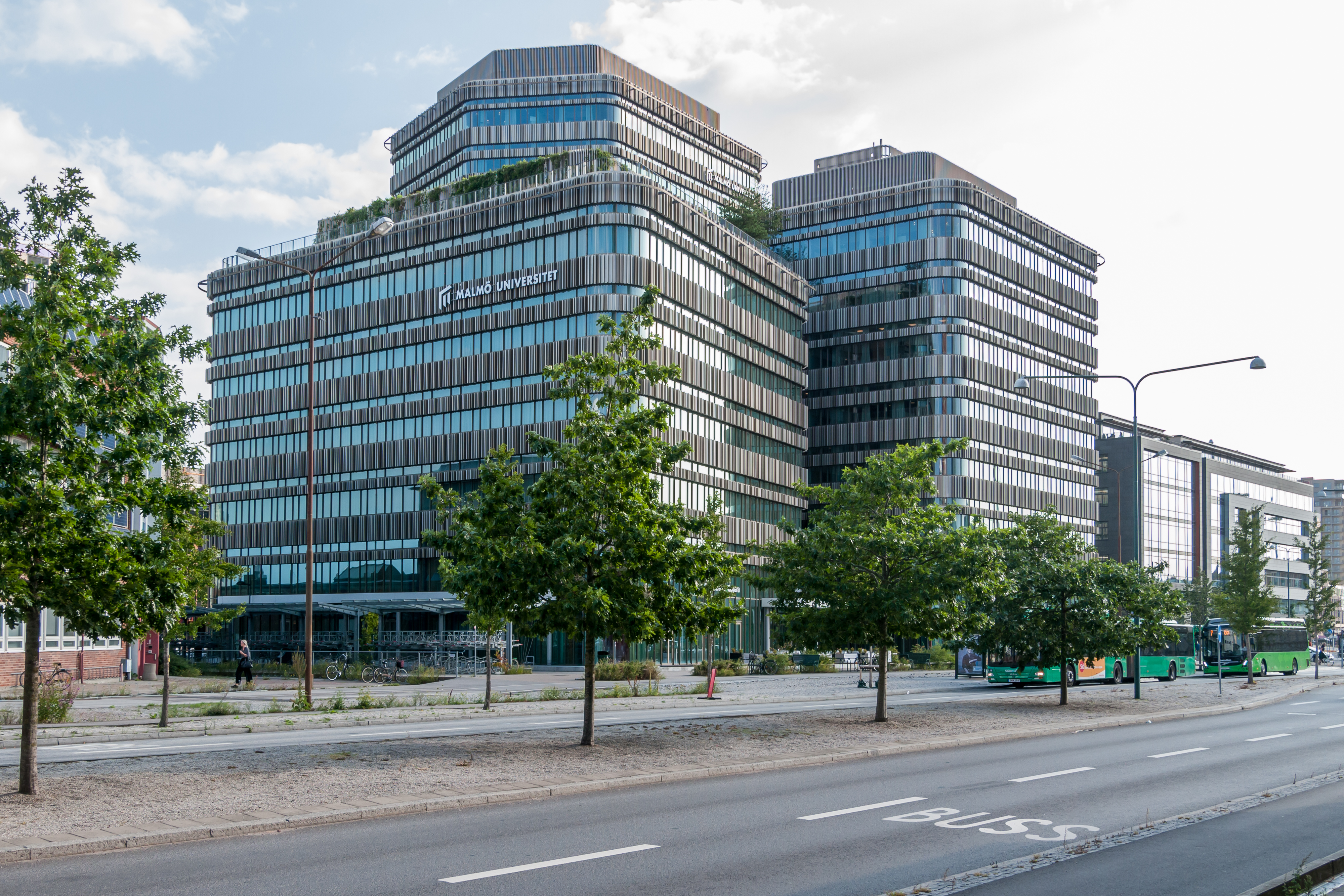 Bulding of the University of Malmö